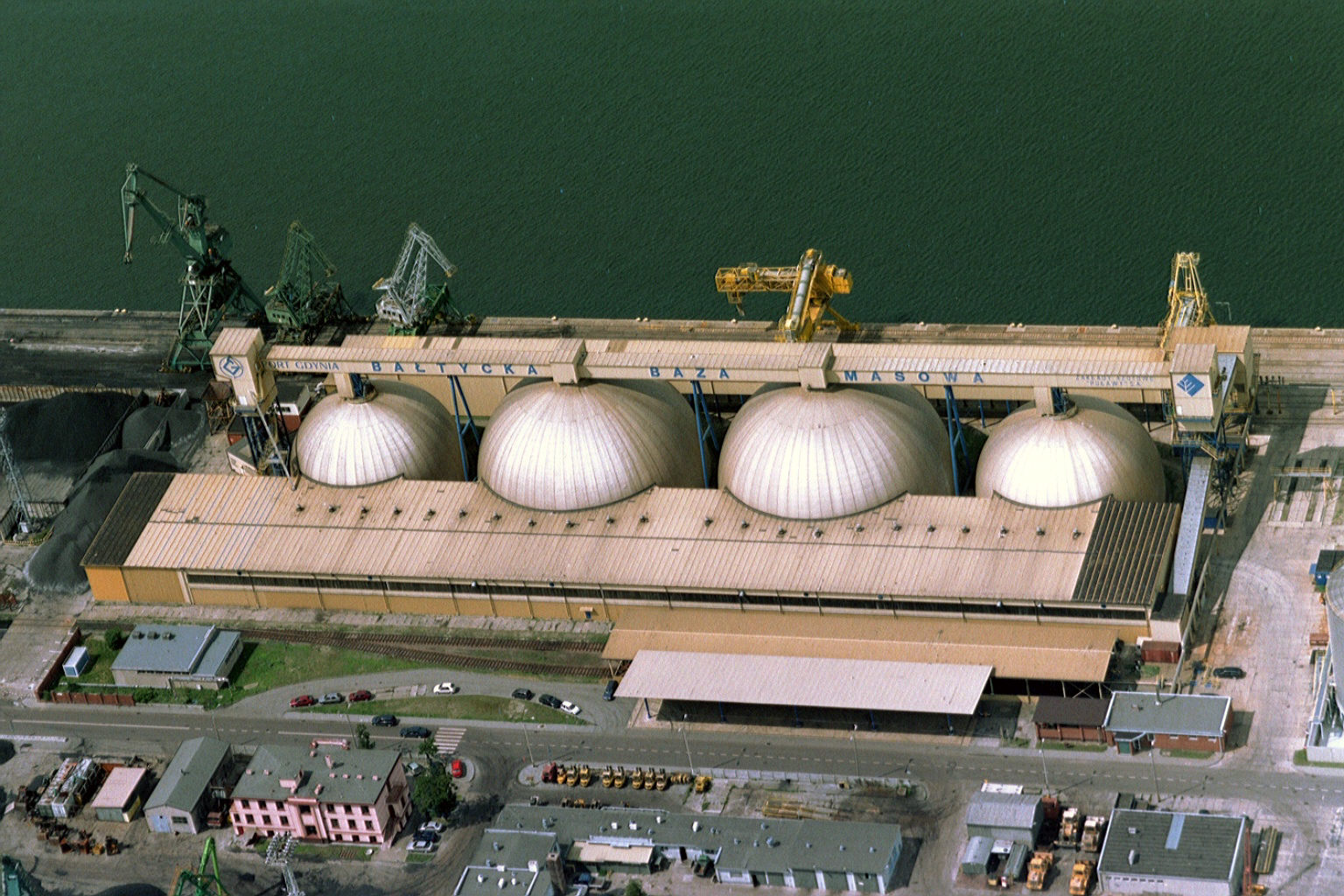 Gdynia. Bałtycka baza masowa. (Storage depot on the Baltic coast